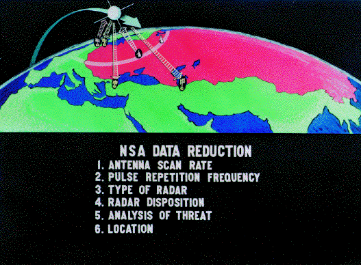 OTO: "NSA Data Reduction," indicating the ELINT information to be derived by processing the satellite downlink.